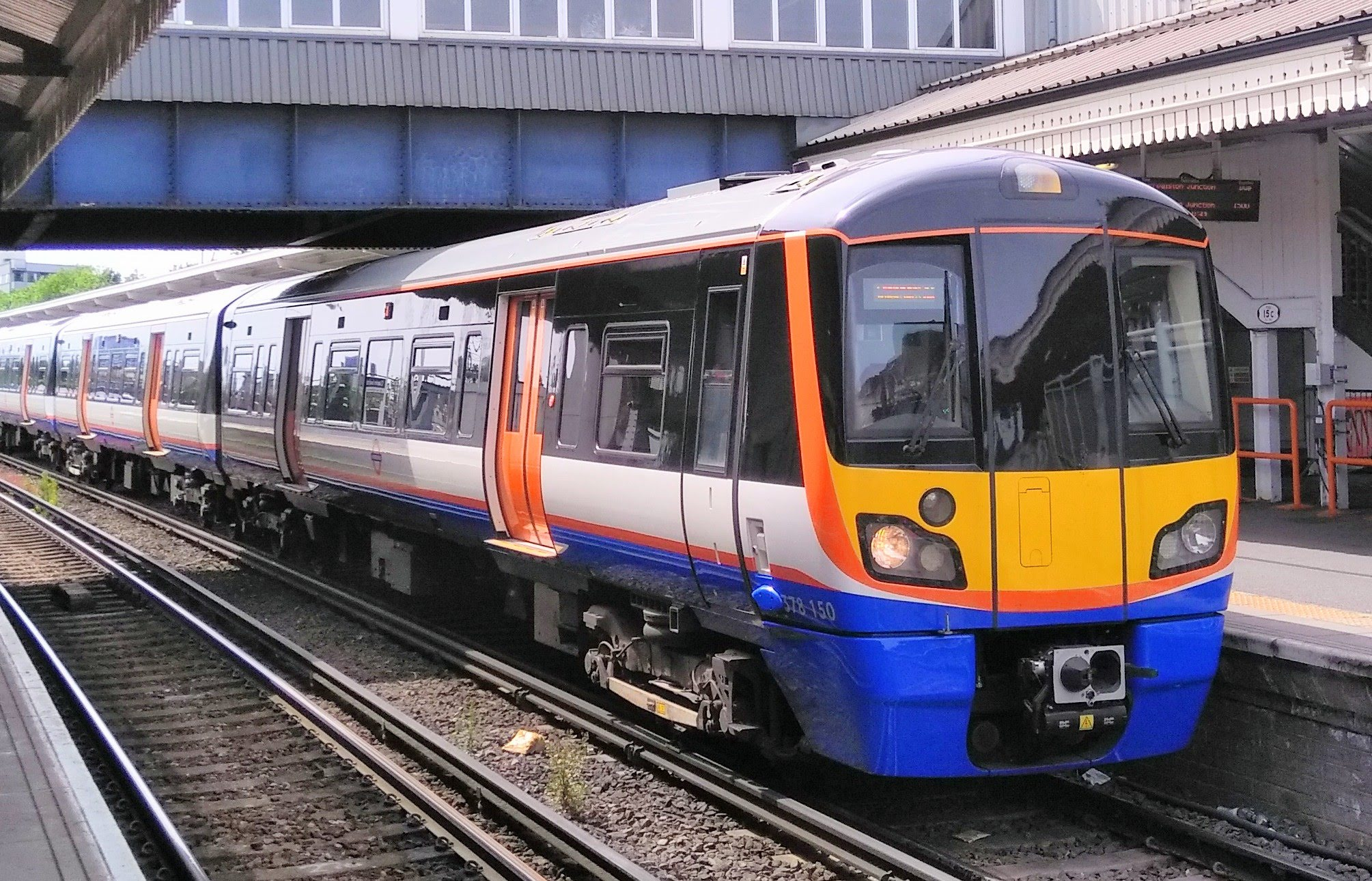 London Overground unit 378150 stands at Clapham Junction station